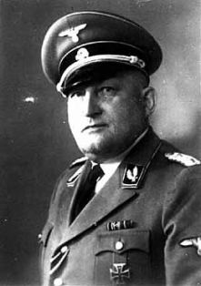 Richard Glücks, who was the perpetrator of the Holocaust